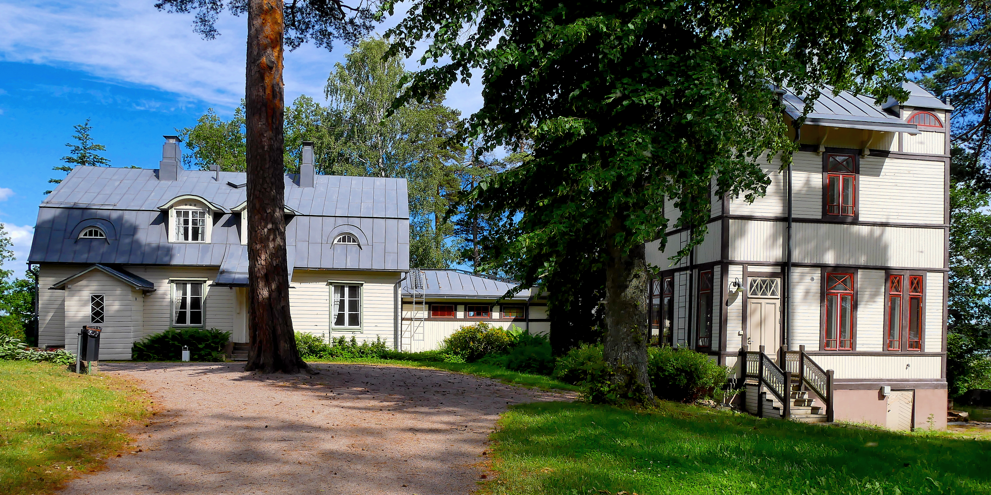 Villa Rulludd, Espoo, Finland